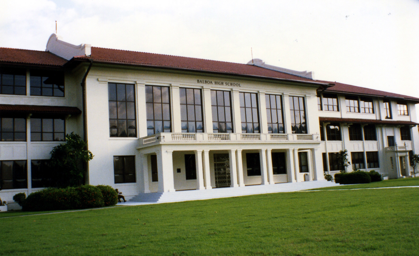 Balboa High School's main building (#704) in 1997.